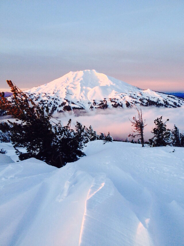 Sunrise at Mount Bachelor_Halesworth